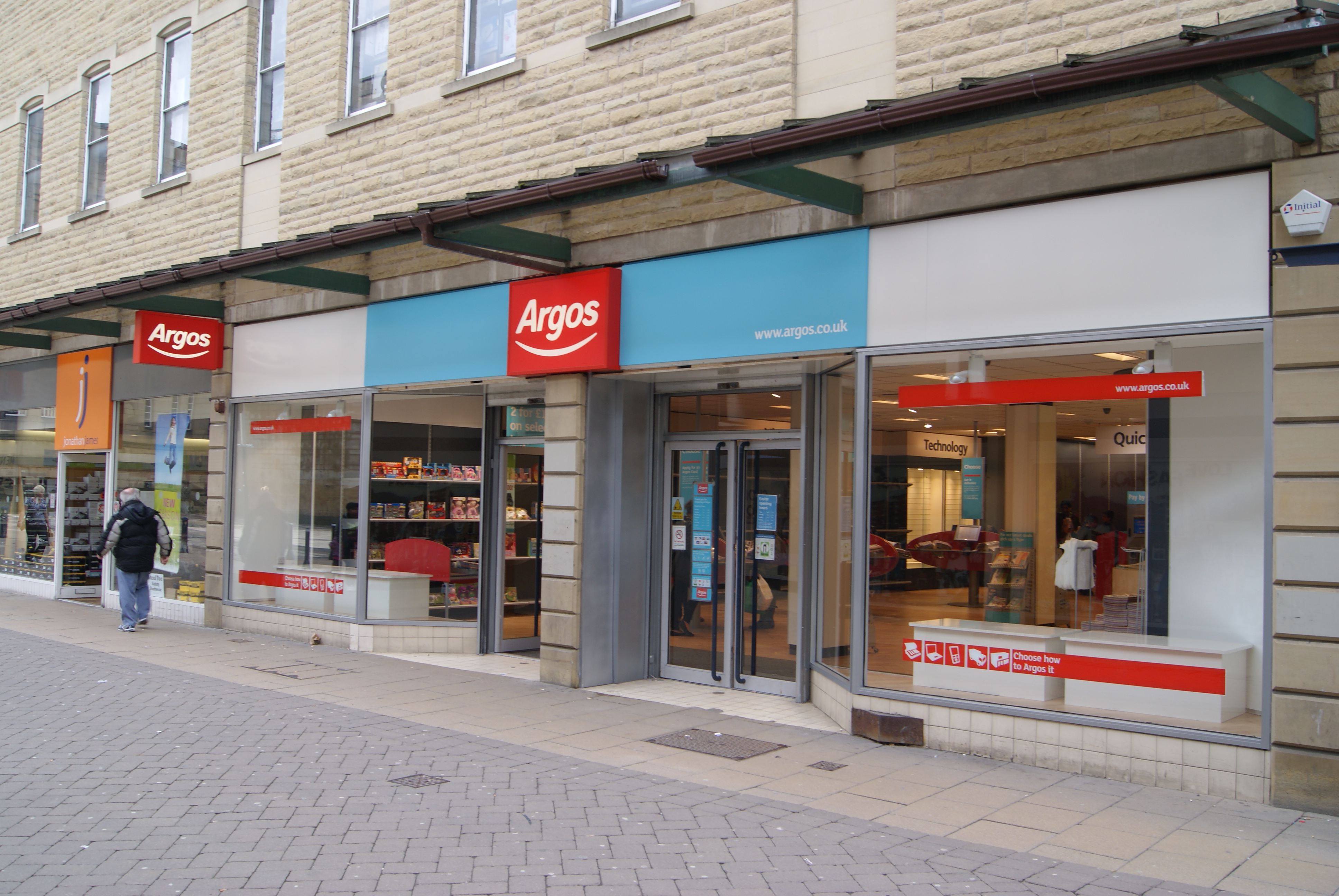 Argos, showing the new branding on Victoria Lane in Huddersfield, West Yorkshire. Taken on the afternoon of Saturday the 3rd of April 2010.